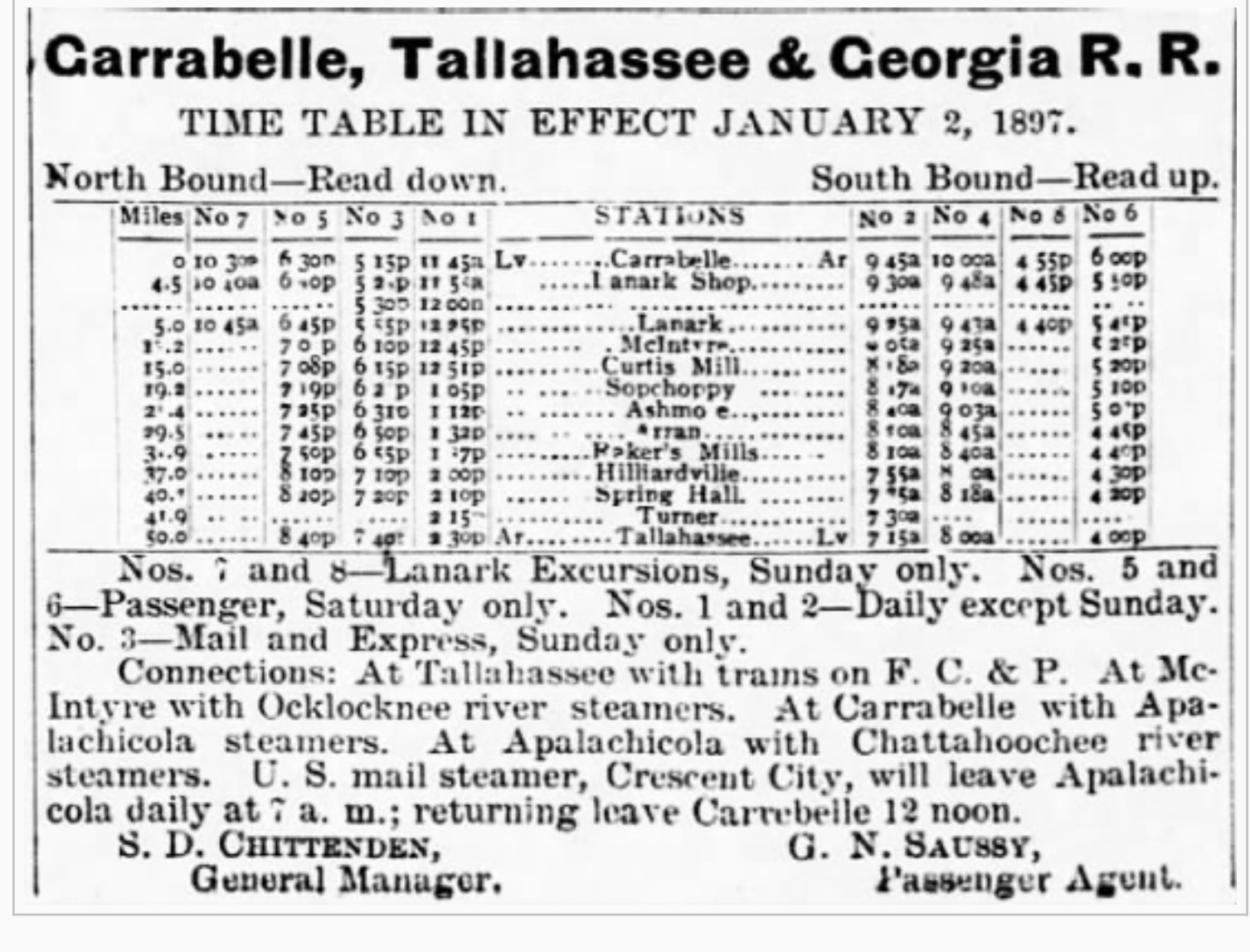 Taken from Ocala Evening Star, May 26, 1897 - public domain